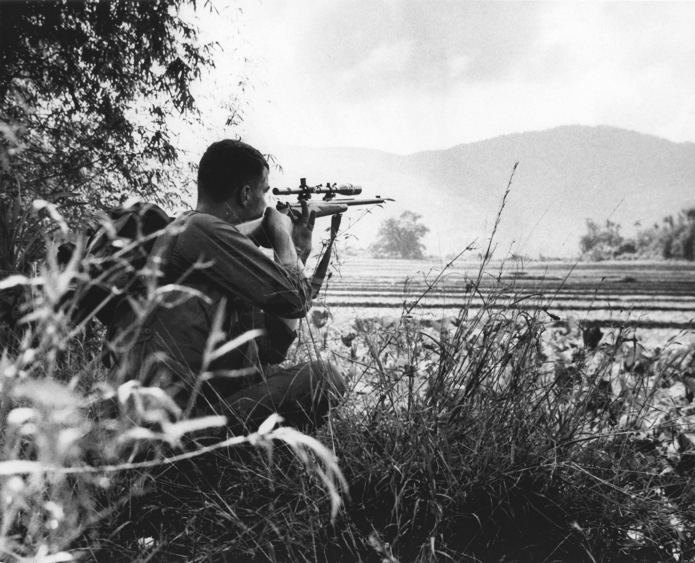 An unidentified Marine sniper in Vietnam. From the Jonathan Abel Collection (COLL/3611), Marine Corps Archives & Special Collections. OFFICIAL USMC PHOTOGRAPH